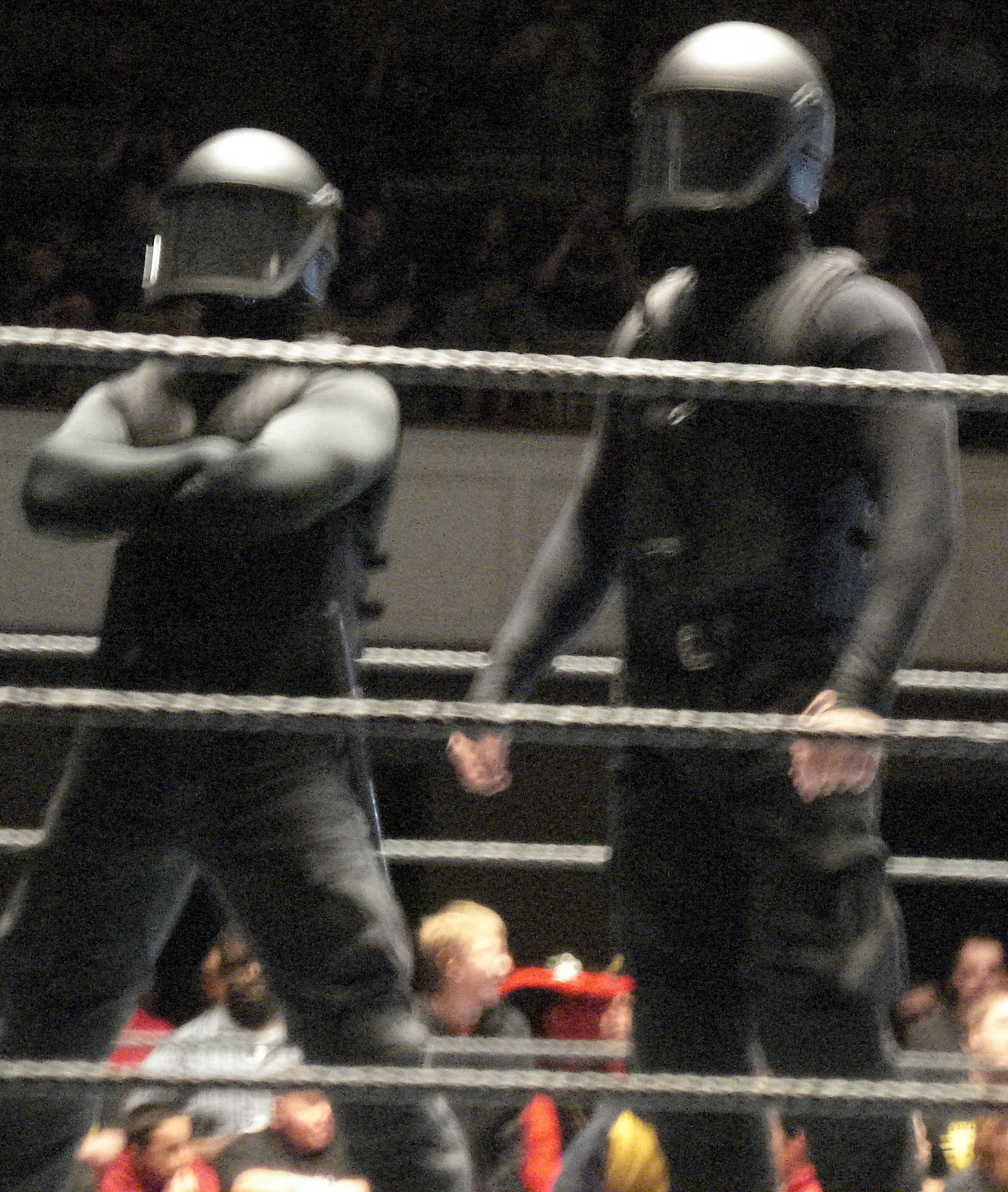 Paul Heyman's Personal Security. ECW Live. Racine Memorial Auditorium October 28en:2006.